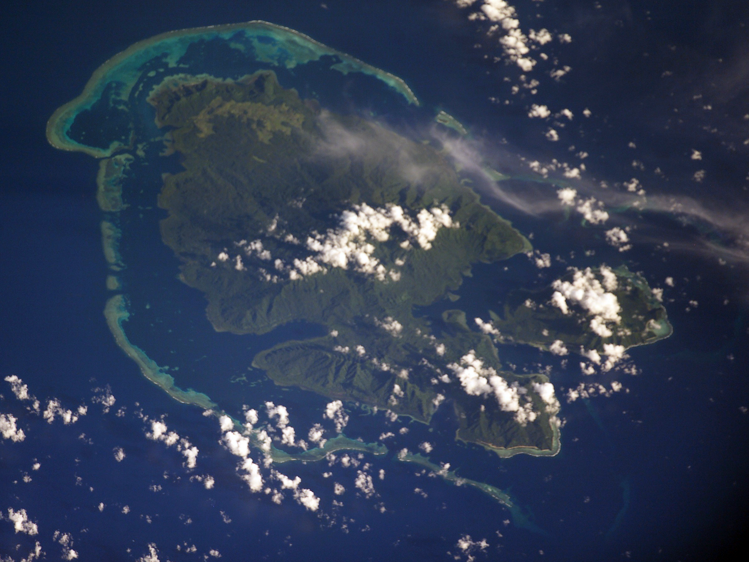 NASA astronaut image of Vanikoro, Santa Cruz Islands, Solomon Islands